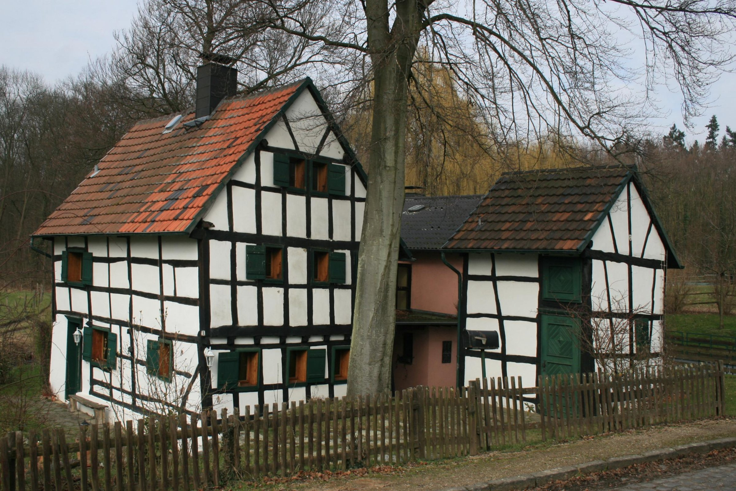 Cultural heritage monument No. Müd-07 in Vettweiß